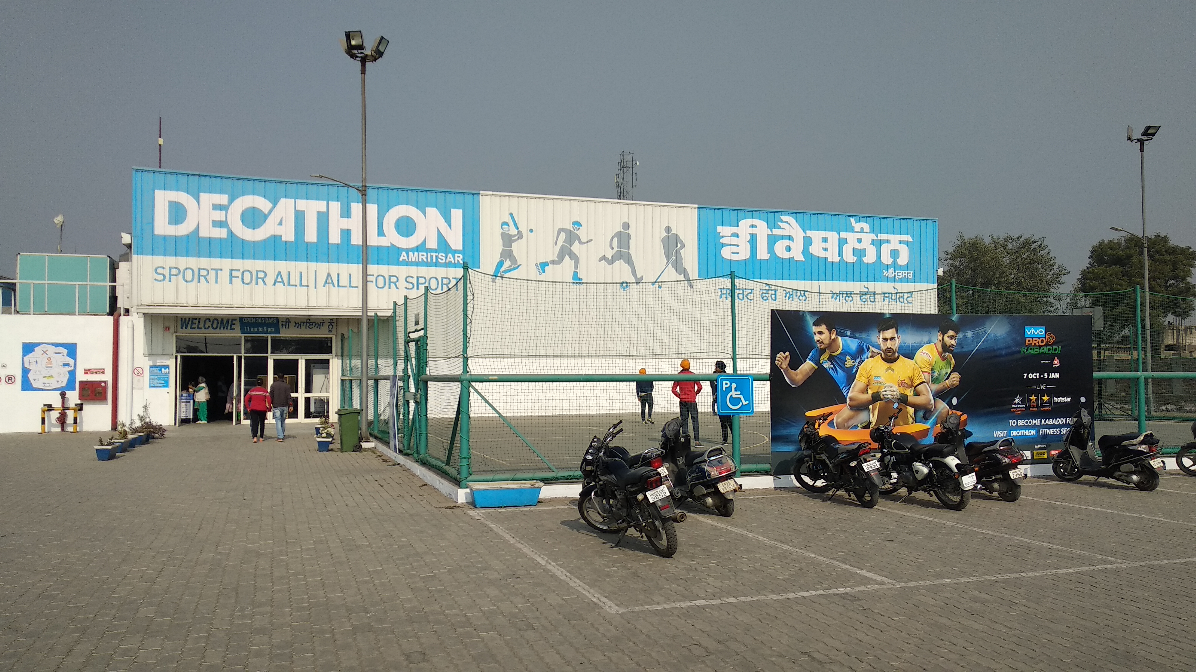 Decathlon Branch at Amritsar, Punjab ਪੰਜਾਬੀ: ਡੀਕੈਥਲੋਨ ਦੀ ਅੰਮਿਤਸਰ, ਪੰਜਾਬ ਵਿਖੇ ਸ਼ਾਖਾ